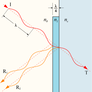 Interference in a λ/4 coating.